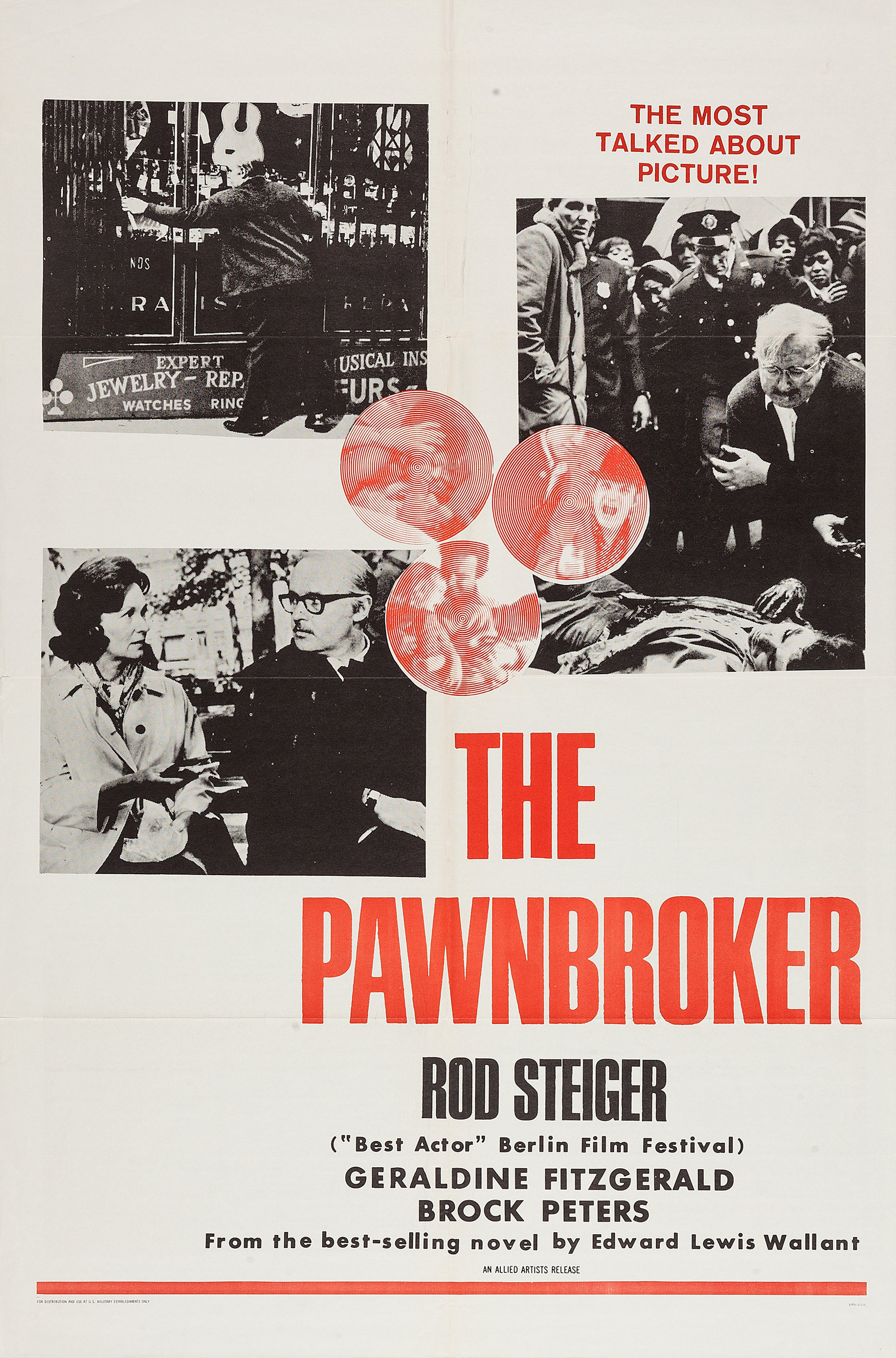 Poster for the 1964 film The Pawnbroker, with the note "For Distribution and Use at U.S. Military Establishments Only" (bottom left).